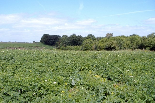 Potato field, Basford Basford. On the South Cheshire Way; potato field near Burrow Coppice.